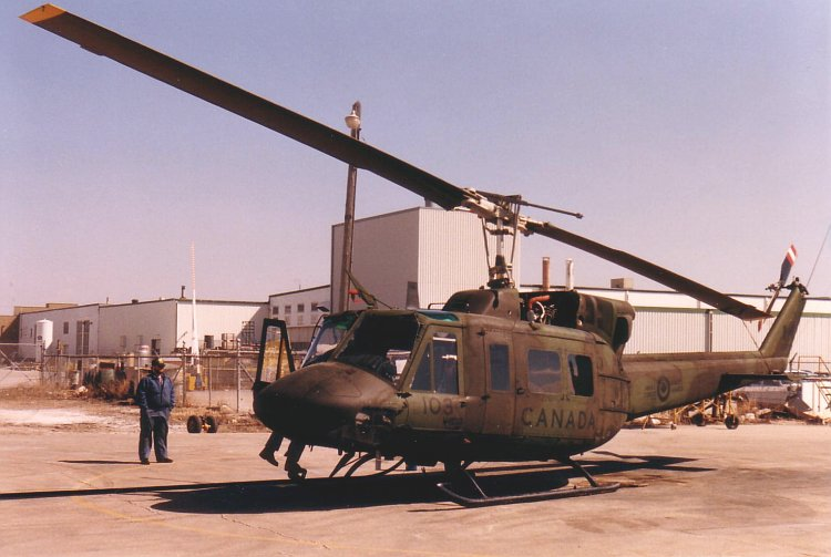 CH-135 Twin Huey 135103 after repainting at Bristol Aerospace in the in anti-IR olive and green scheme used on all non-SAR/ non-peacekeeping Twin Hueys after 1986/88. The aircraft was returned to the Aerospace Engineering Test Establishment at CFB Cold Lake, 1987. I took this photo of a Canadian Forces CH-135 Twin Huey helicopter at Bristol Aerospace in 1987